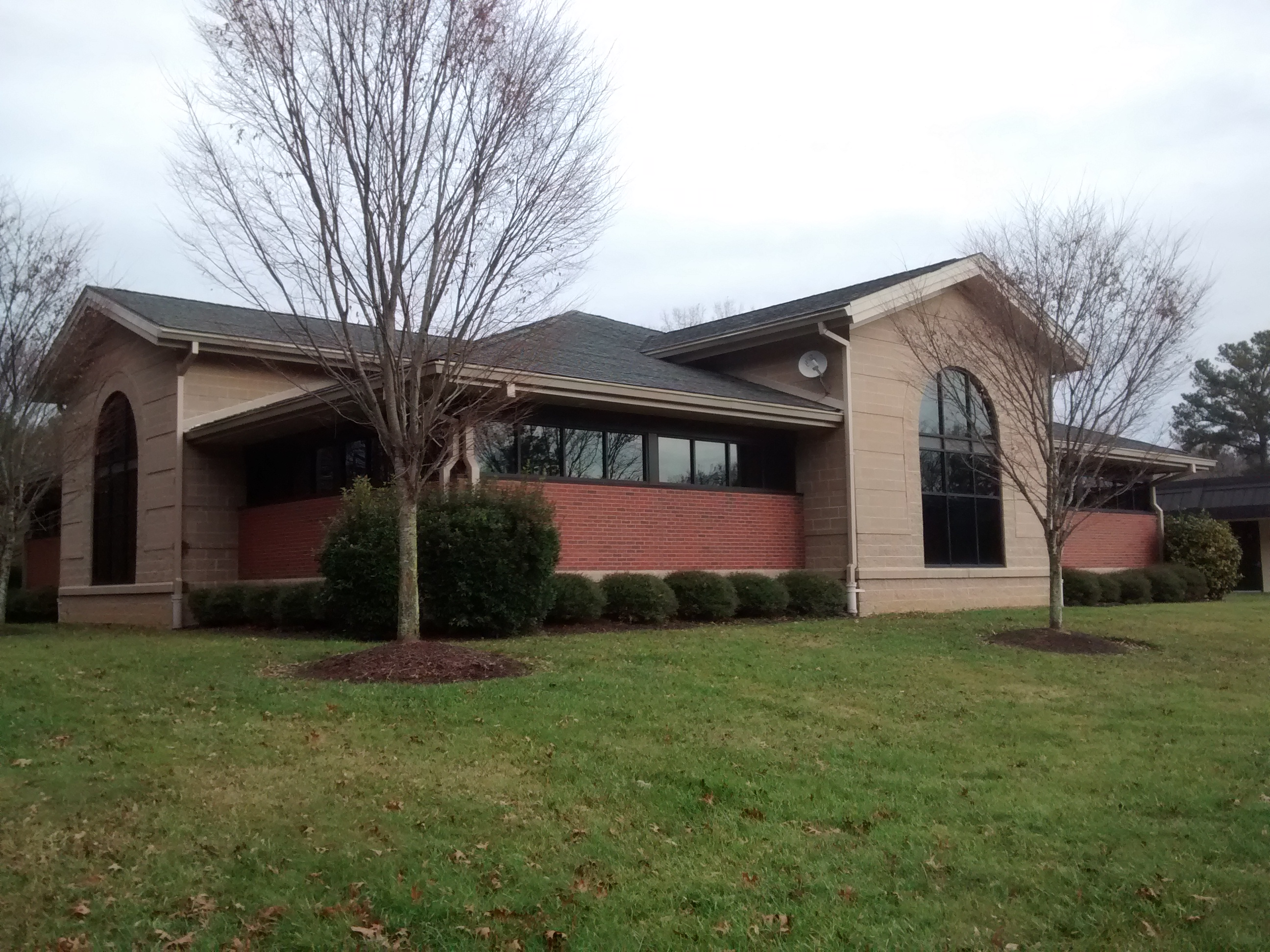 A building at Ravenscroft School in Raleigh, North Carolina.